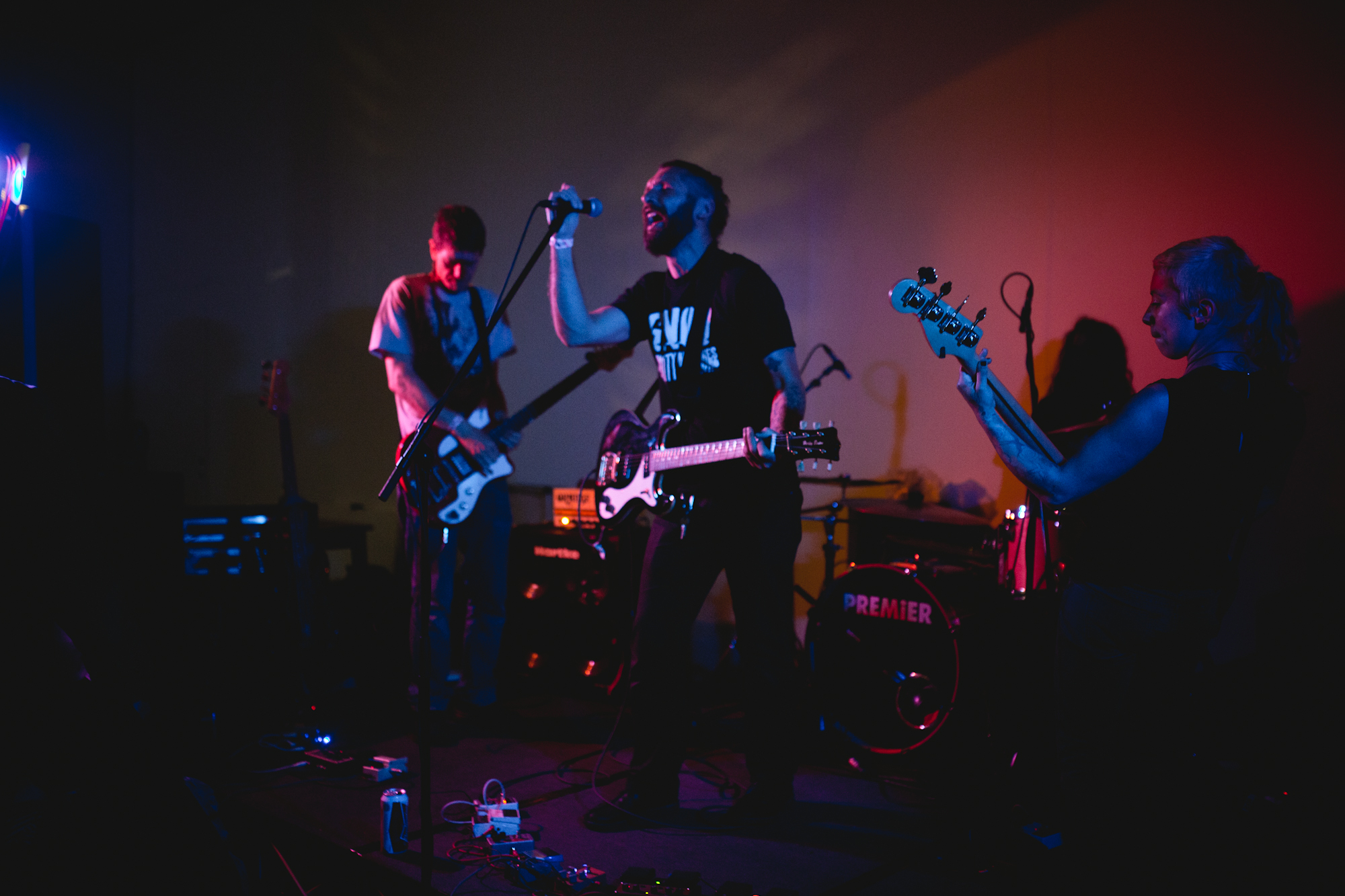 GNOD - The Millenium Galleries - Tramlines Festival 2015